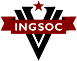 Released under the Free Art License [Copyleft Attitude] 1.2 [1]